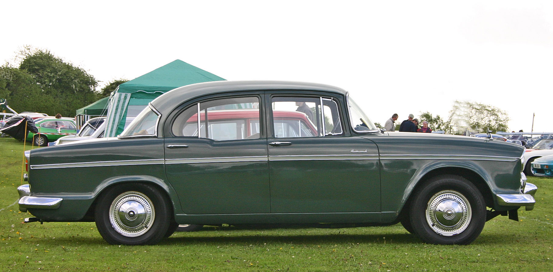 Humber Hawk Series II. This 'low price' version of the big Humber saloons arrived in 1957, and the Series II version spanned 1960-62 before4 the Series III arrived